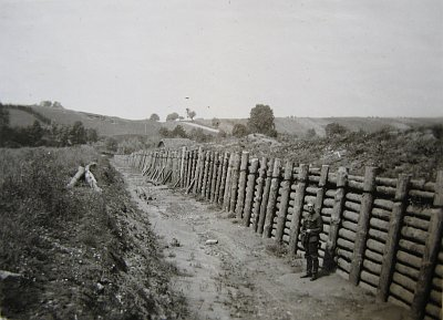 German-Soviet Union Border - San River